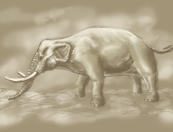 Sicilian Pygmy Elephant